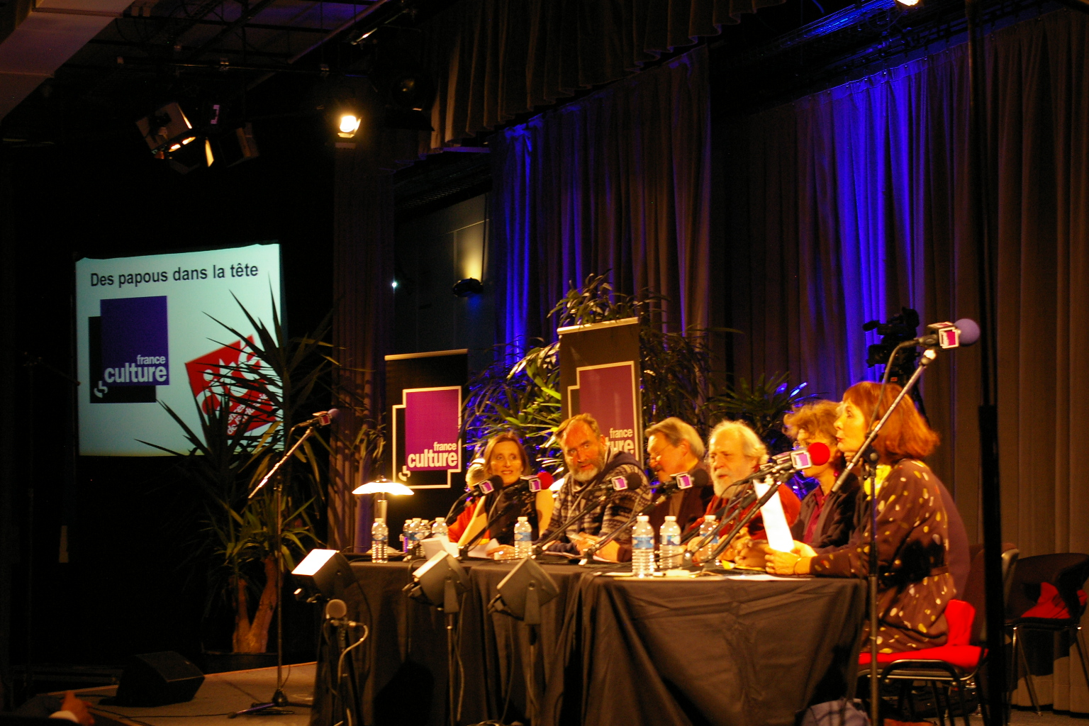 radio Broadcast